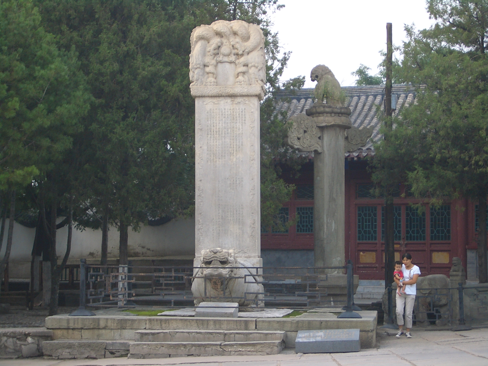 A stele, built on top of a magnificently wrought bixi (stone tortoise), commemorating Qianlong Emperor's rebuilding Lugou Bridge (a.k.a. Marco Polo Bridge) in the 50th year of his reign (ca. 1785). It is located near the western end of the bridge, and is much less eroded than the other bixi-supported stele (at the opposite end of the bridge). This photo has the frontal view of the monument. A huabiao column is in the right background.